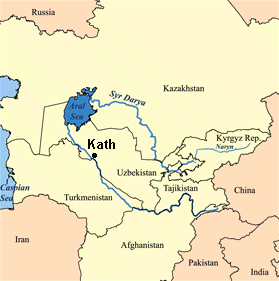 The Kath Persian city